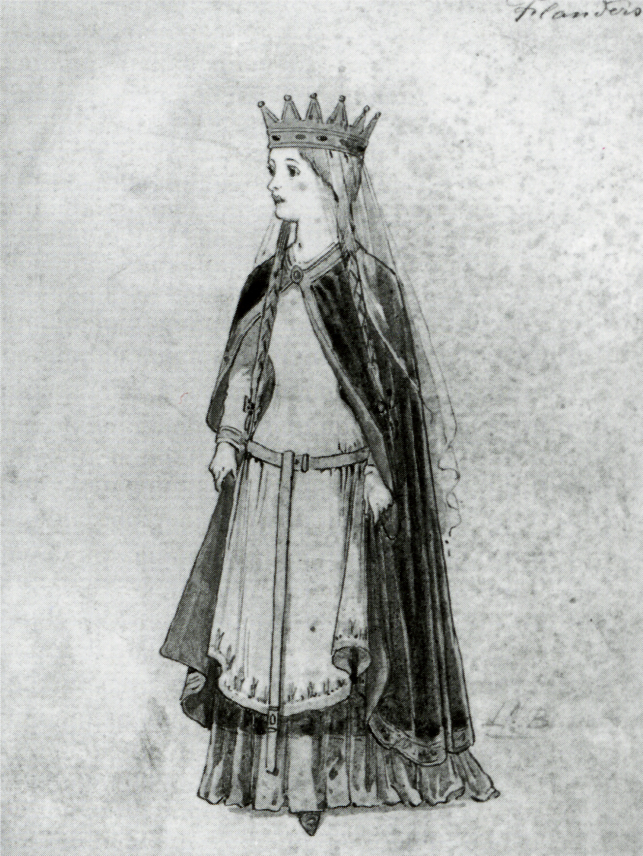 This image is a JPEG version of the original PNG image at File: Matilda of Flanders.png. Generally, this JPEG version should be used when displaying the file from Commons, in order to reduce the file size of thumbnail images. However, any edits to the image should be based on the original PNG version in order to prevent generation loss, and both versions should be updated. Do not make edits based on this version. See here for more information. Matilda of Flanders, c.1031-83. Unknown artist. Pen, ink and watercolour, 18 x 13.3cm (7 1/8" x 5 1/2"). National Portrait Gallery (RN49540). National Portrait Gallery, London: Unknown NPG number While Commons policy accepts the use of this media, one or more third parties have made copyright claims against Wikimedia Commons in relation to the work from which this is sourced or a purely mechanical reproduction thereof. This may be due to recognition of the "sweat of the brow" doctrine, allowing works to be eligible for protection through skill and labour, and not purely by originality as is the case in the United States (where this website is hosted). These claims may or may not be valid in all jurisdictions. As such, use of this image in the jurisdiction of the claimant or other countries may be regarded as copyright infringement. Please see Commons:When to use the PD-Art tag for more information.See User:Dcoetzee/NPG_legal_threat for more information. This tag does not indicate the copyright status of the attached work. A normal copyright tag is still required. See Commons:Licensing.